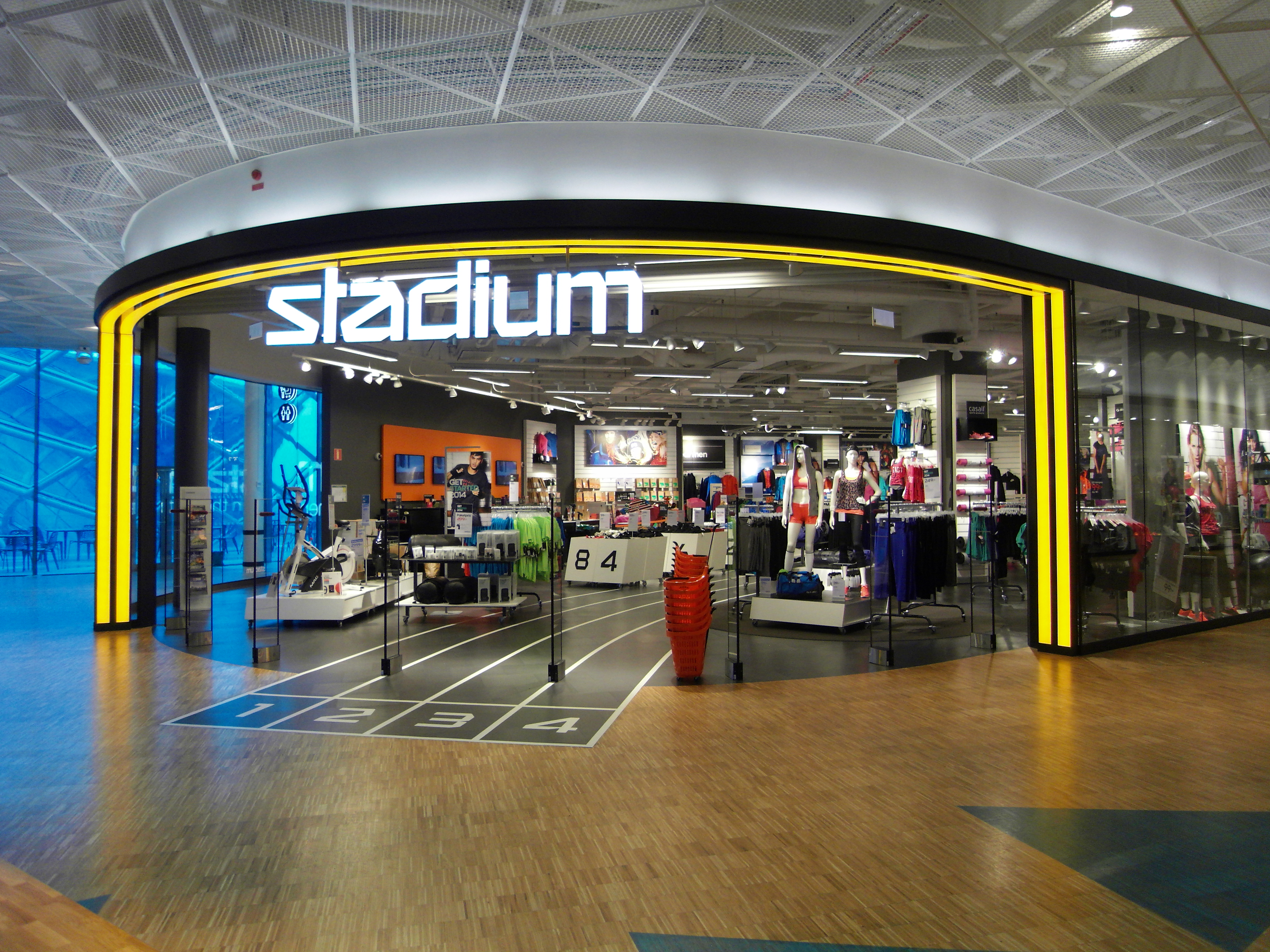 A Stadium store at the shopping mall Emporia in the city of Malmo.